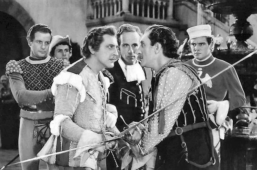 Scene from the 1936 film Romeo and Juliet. Pictured are John Barrymore, Leslie Howard and Basil Rathbone. The still is derived from this PD item : .